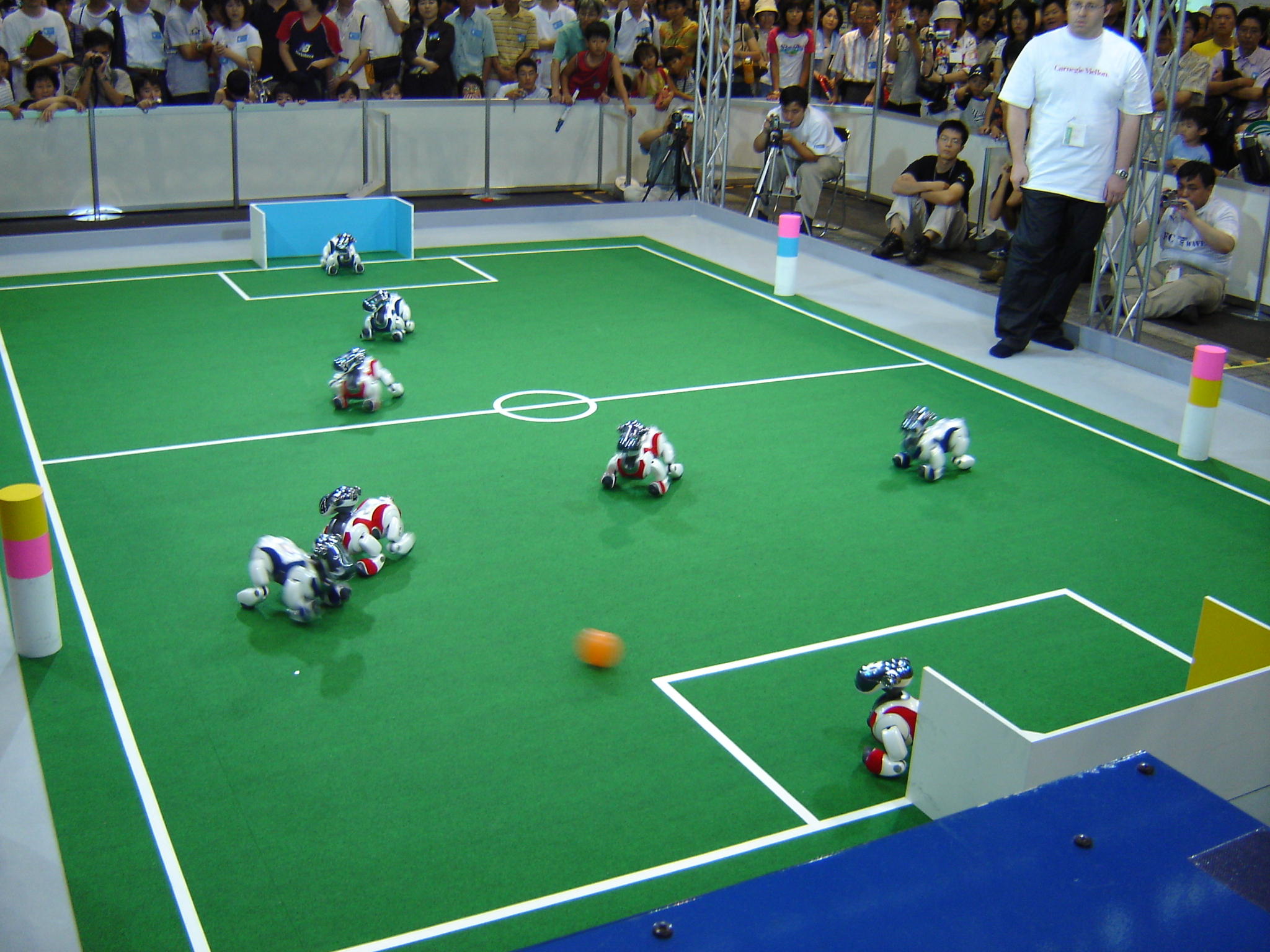 Aibos playing football at Robocup 2005, held in Osaka, Japan.